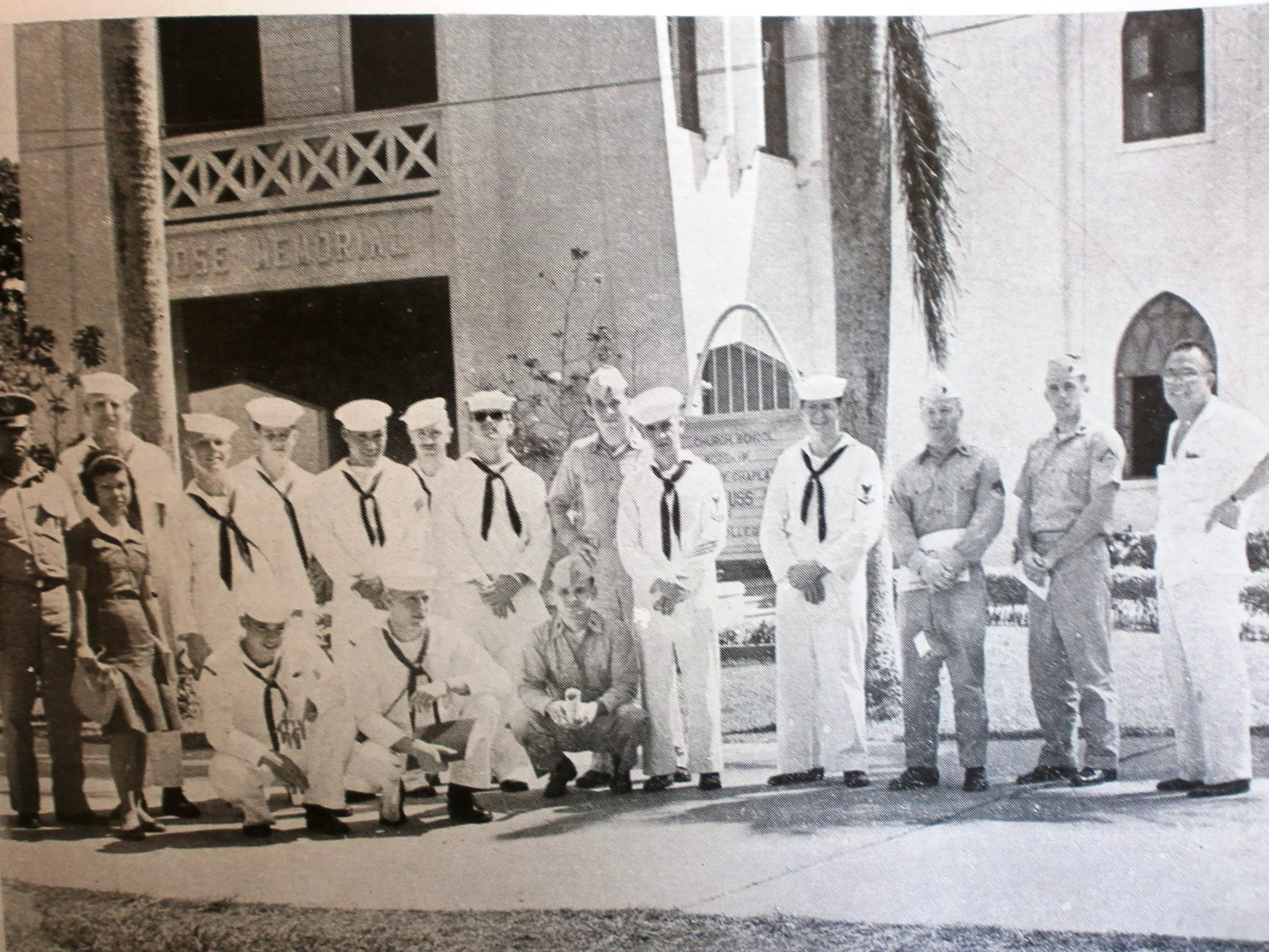 U.S. Navy personnel drop in at the Central Philippine University campus whenever a ship comes to port of Iloilo. (Photo taken between 1964-65)